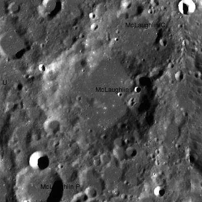 McLaughlin lunar crater - LROC image